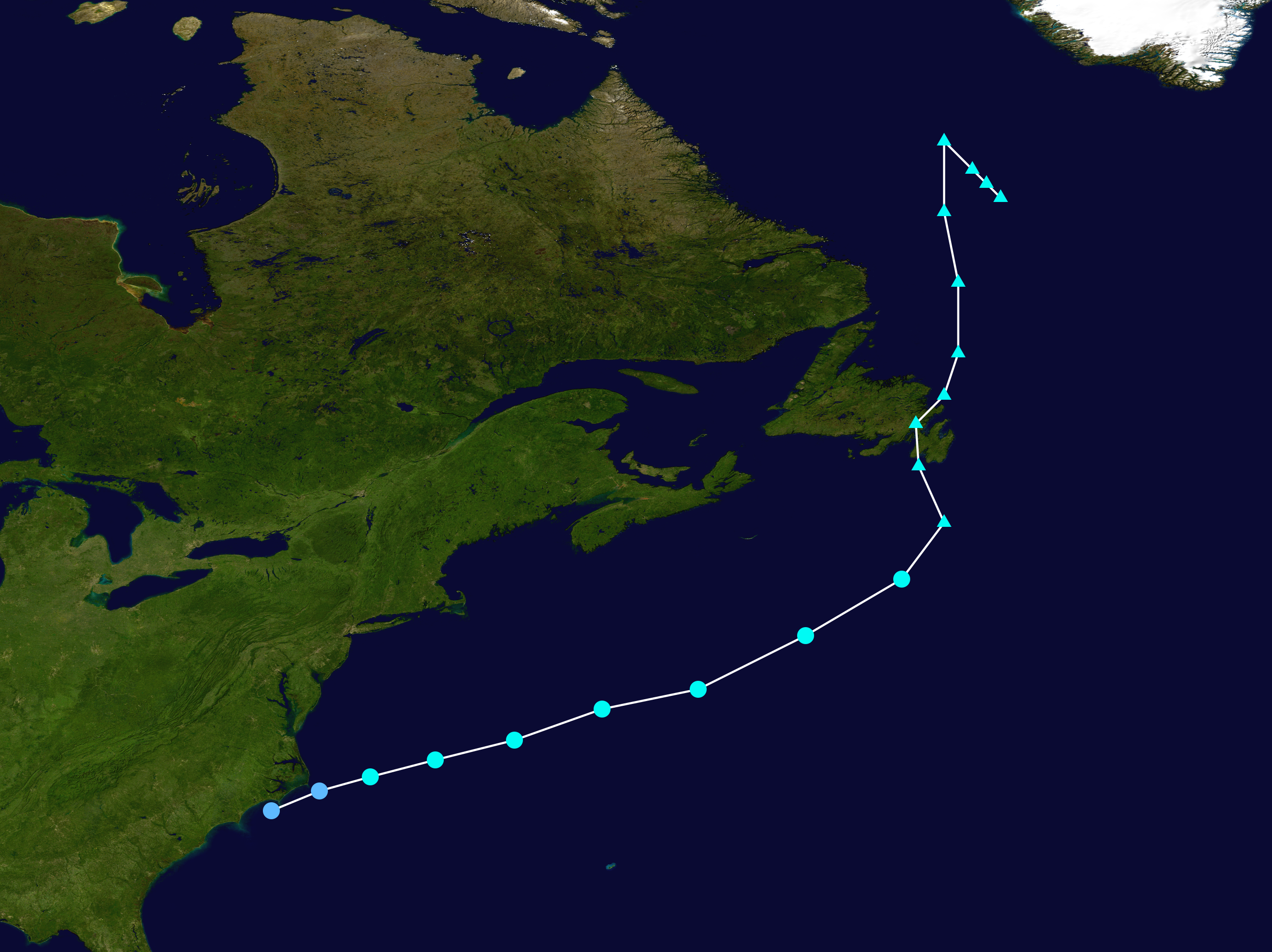 Track map of Tropical Storm Arthur of the 2002 Atlantic hurricane season. The points show the location of the storm at 6-hour intervals. The colour represents the storm's maximum sustained wind speeds as classified in the Saffir–Simpson scale (see below), and the shape of the data points represent the nature of the storm, according to the legend below. Saffir–Simpson scale Tropical depression≤38 mph≤62 km/h Category 3111–129 mph178–208 km/h Tropical storm39–73 mph63–118 km/h Category 4130–156 mph209–251 km/h Category 174–95 mph119–153 km/h Category 5≥157 mph≥252 km/h Category 296–110 mph154–177 km/h Unknown Storm type Tropical cyclone Subtropical cyclone Extratropical cyclone / Remnant low / Tropical disturbance / Monsoon depression